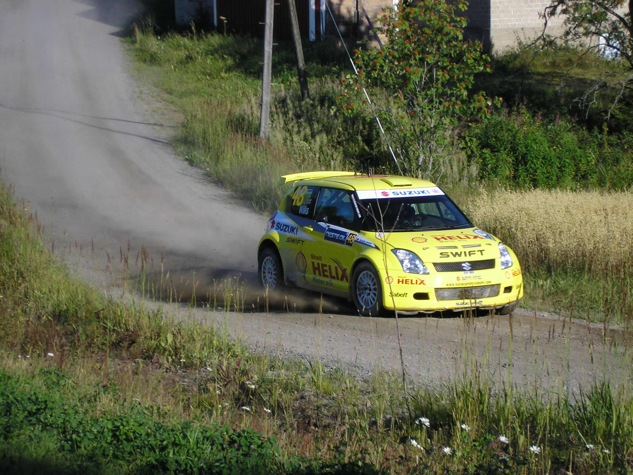 Guy WIlks at Moksi-Leustu stage during Rally Finland 2006.